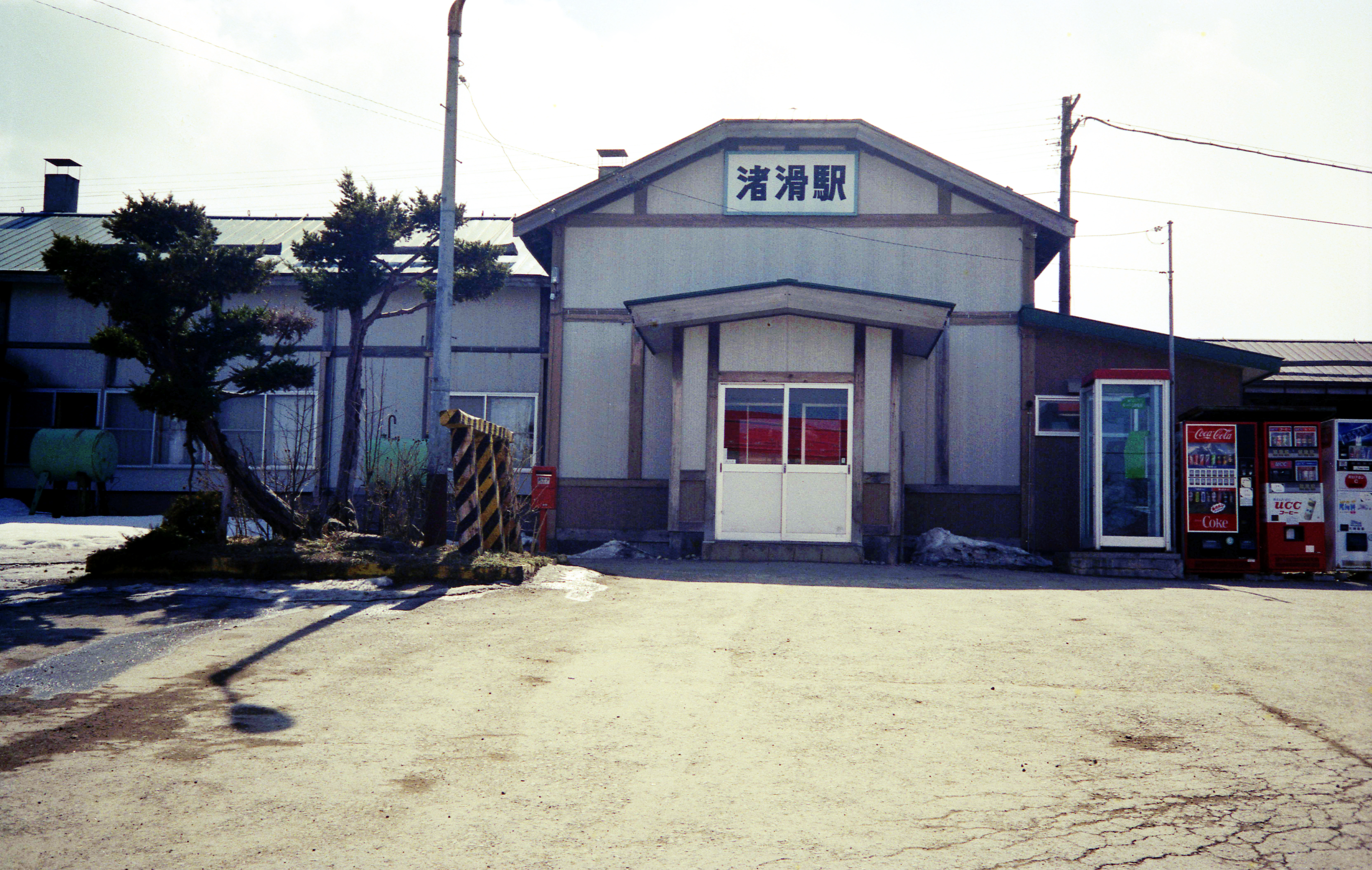 The building of Shokotsu Station,Hokkaido Railway Company Nayoro Main Line(before abolished)